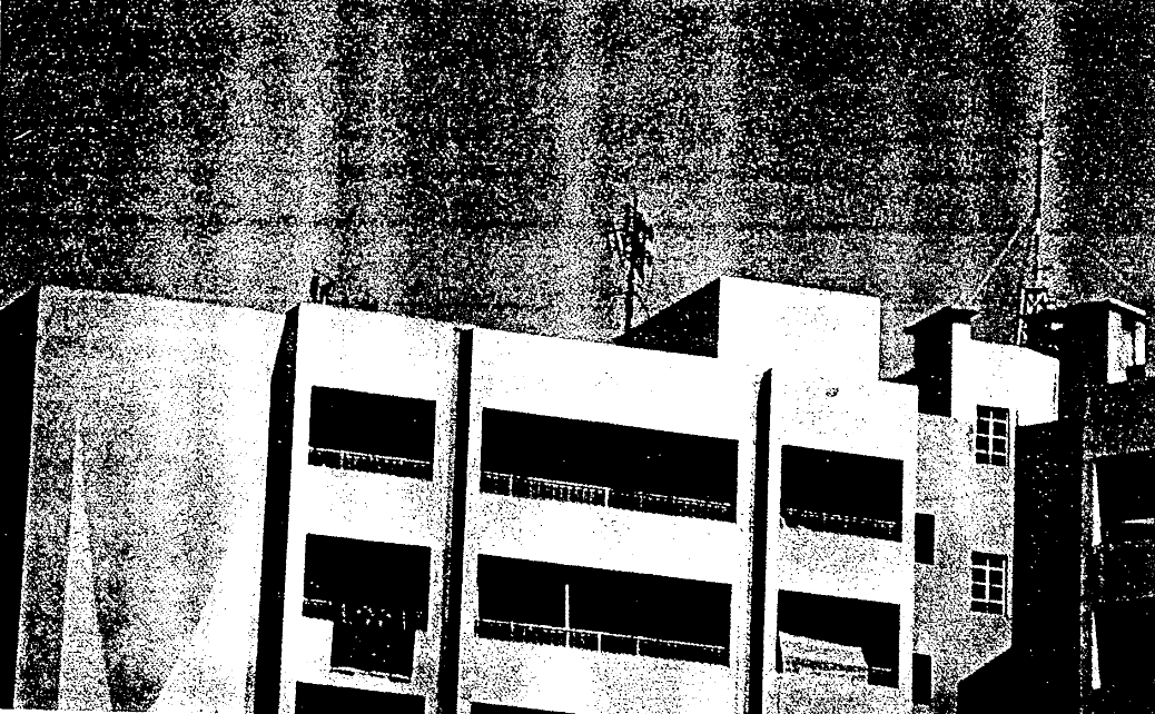 Top Secret CIA Photo of the Soviet MAG (Military Advisory Group) Headquarters in Damascus, Syria.